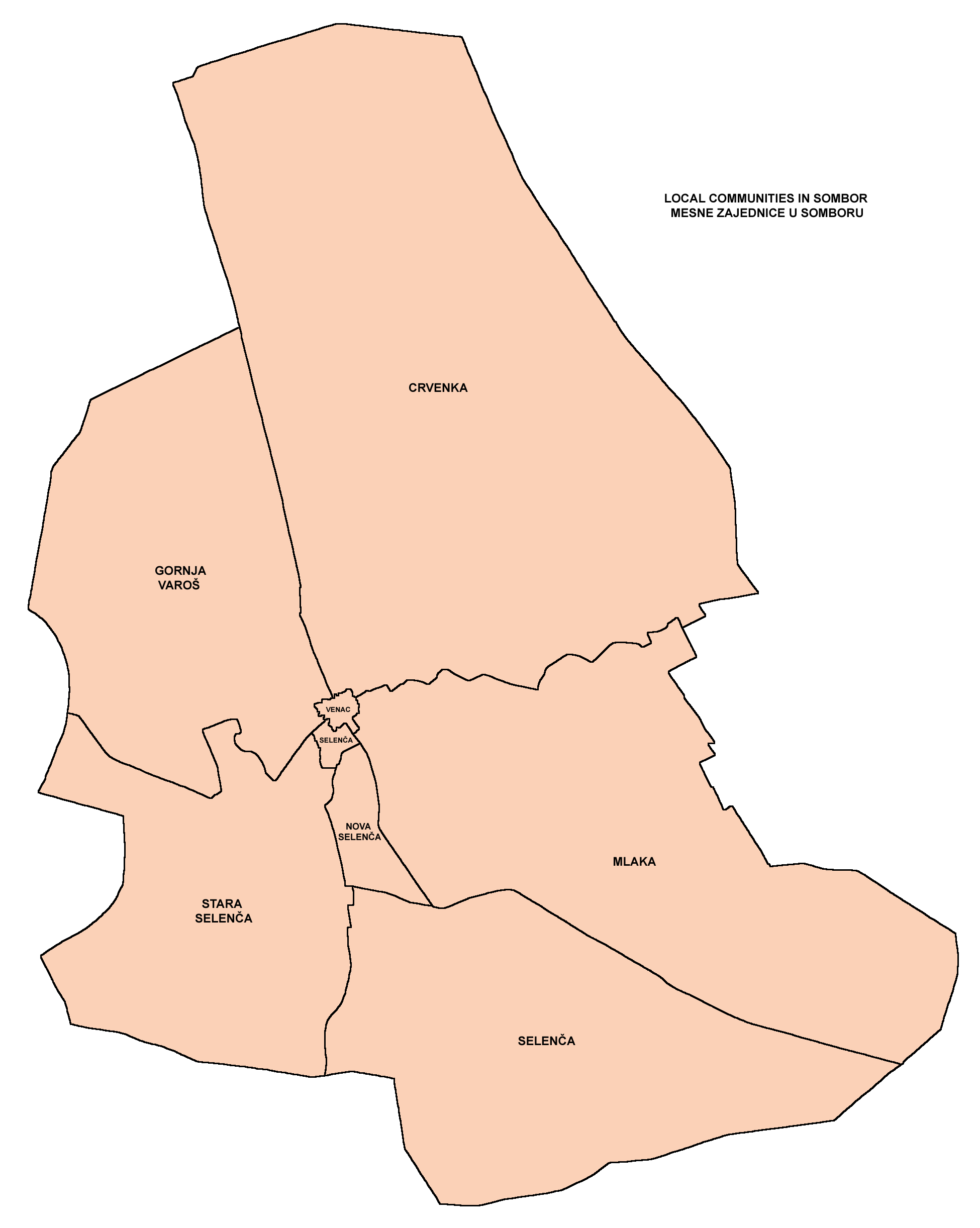 Map of local communities in Sombor.